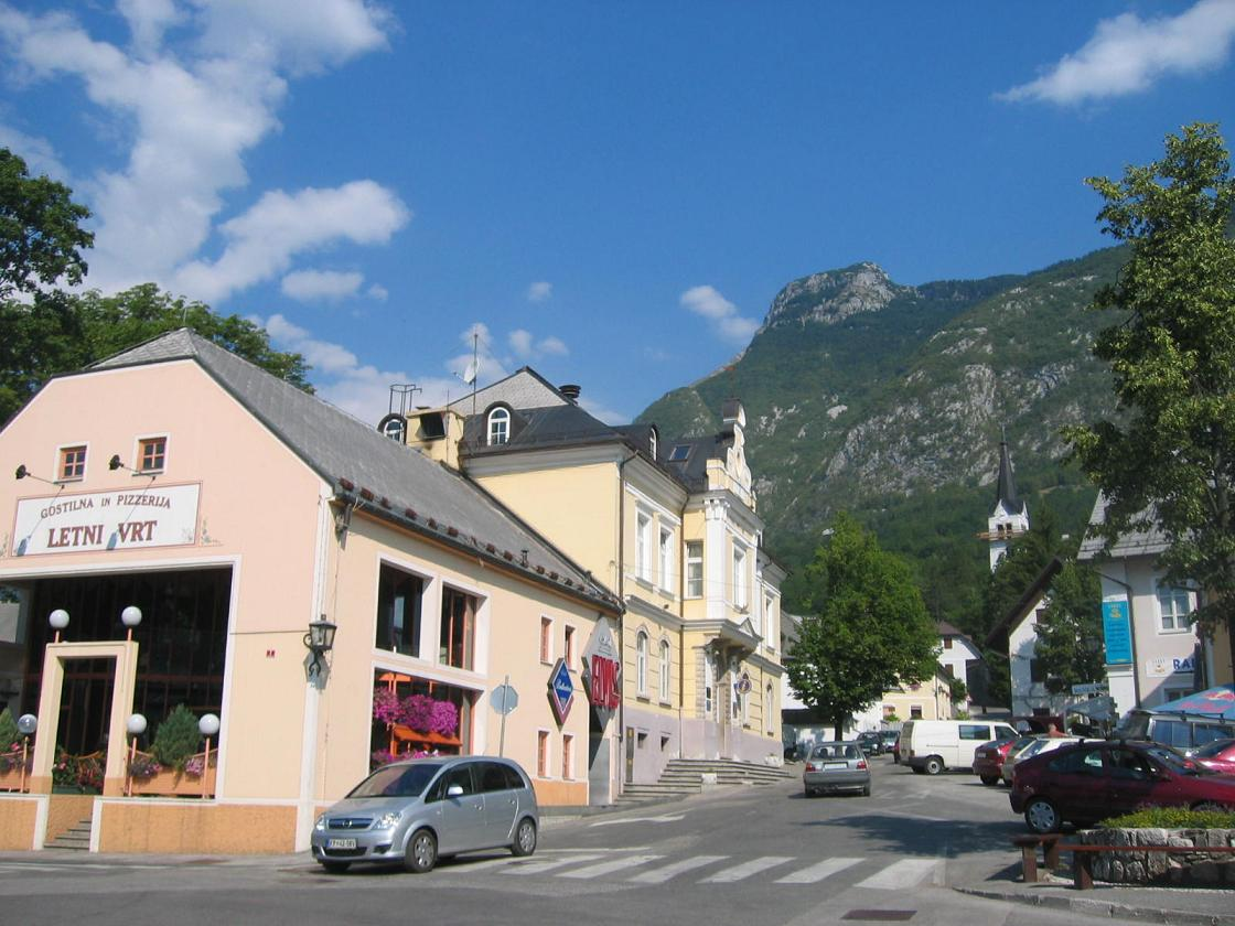 Bovec, town in SLovenia photo:Ziga 06:12, 7 November 2006 (UTC)